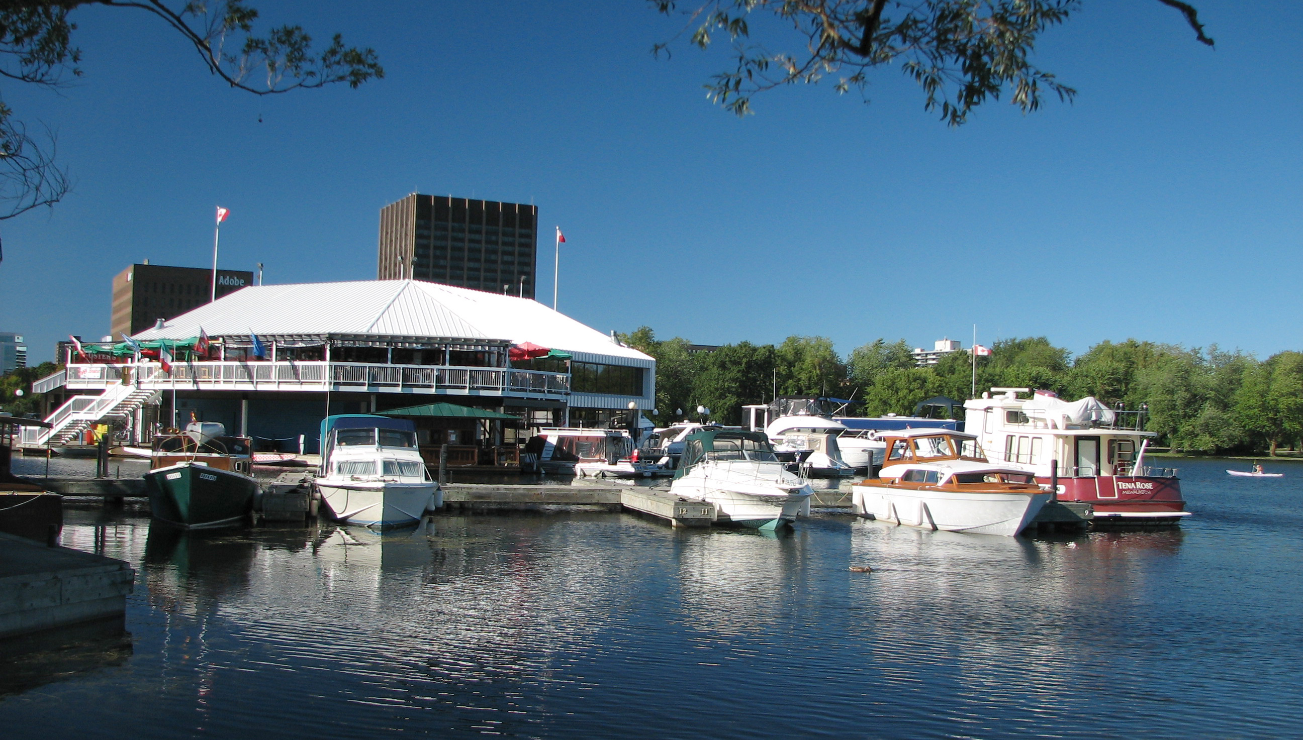 mine own stock